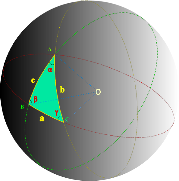 Sferical_Triangle (L. Fransen -Nickname Livinus))